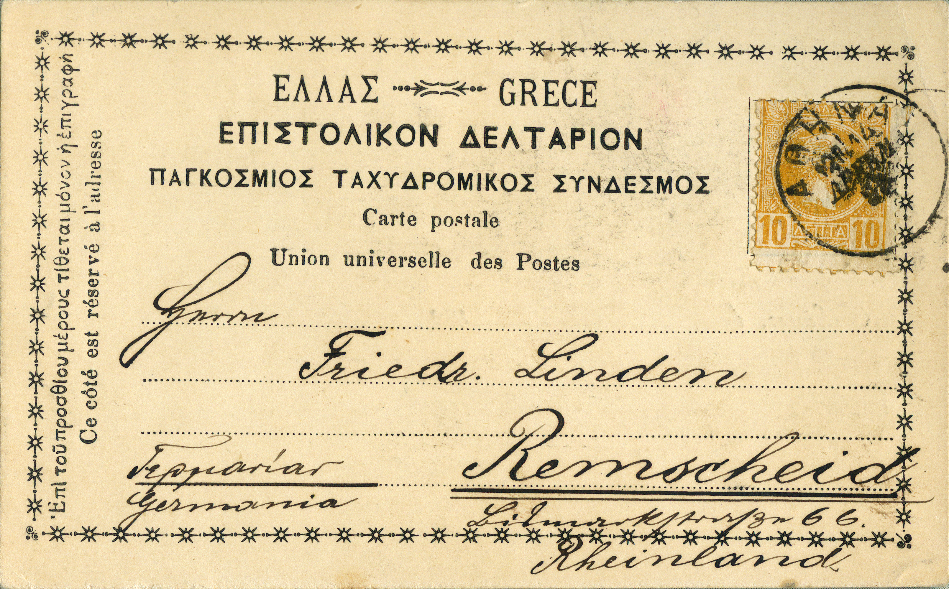 The verso of the oldest known Greek postcard. The postcard was posted on 14 December 1893 from Athens.